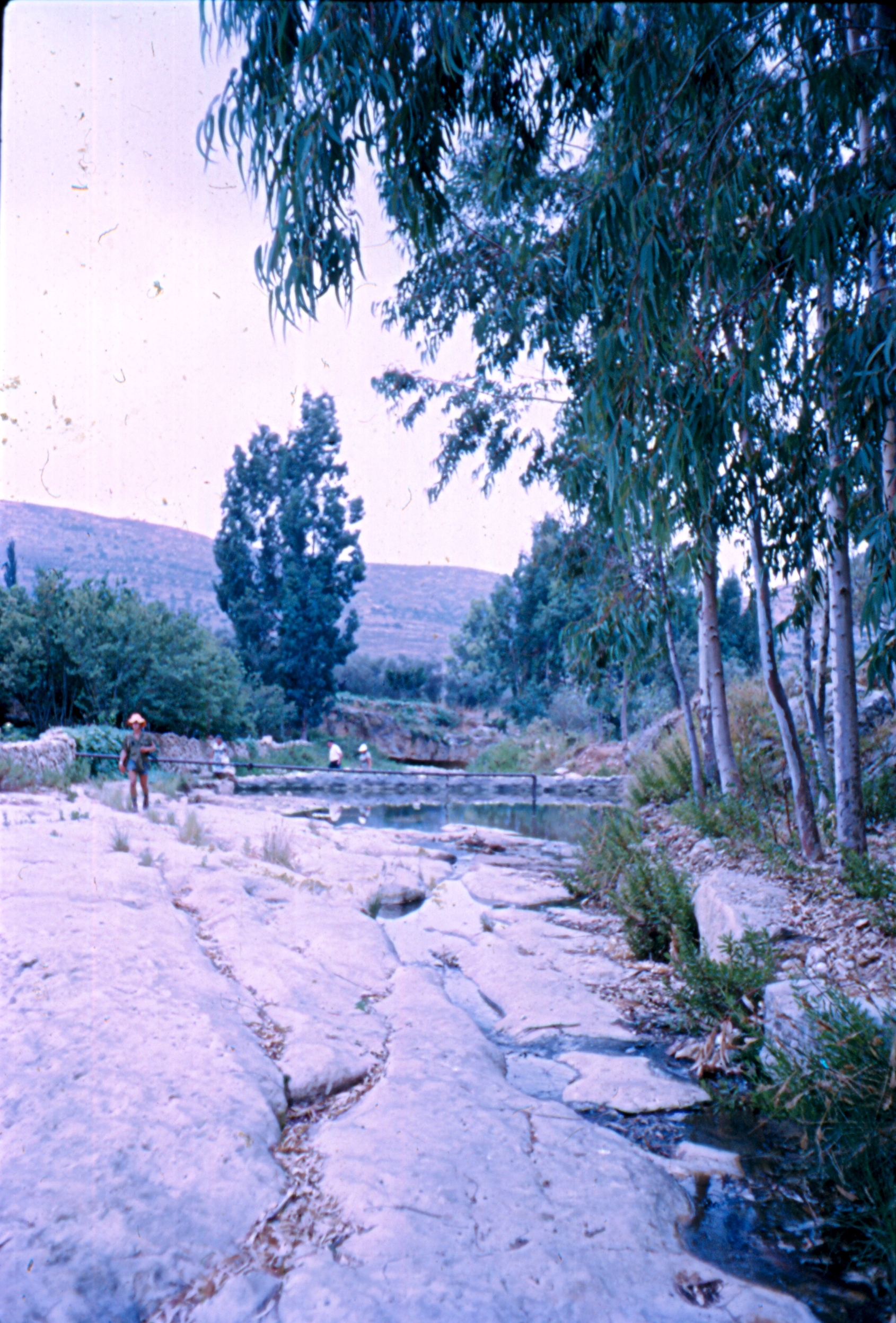 Vadi_zarka